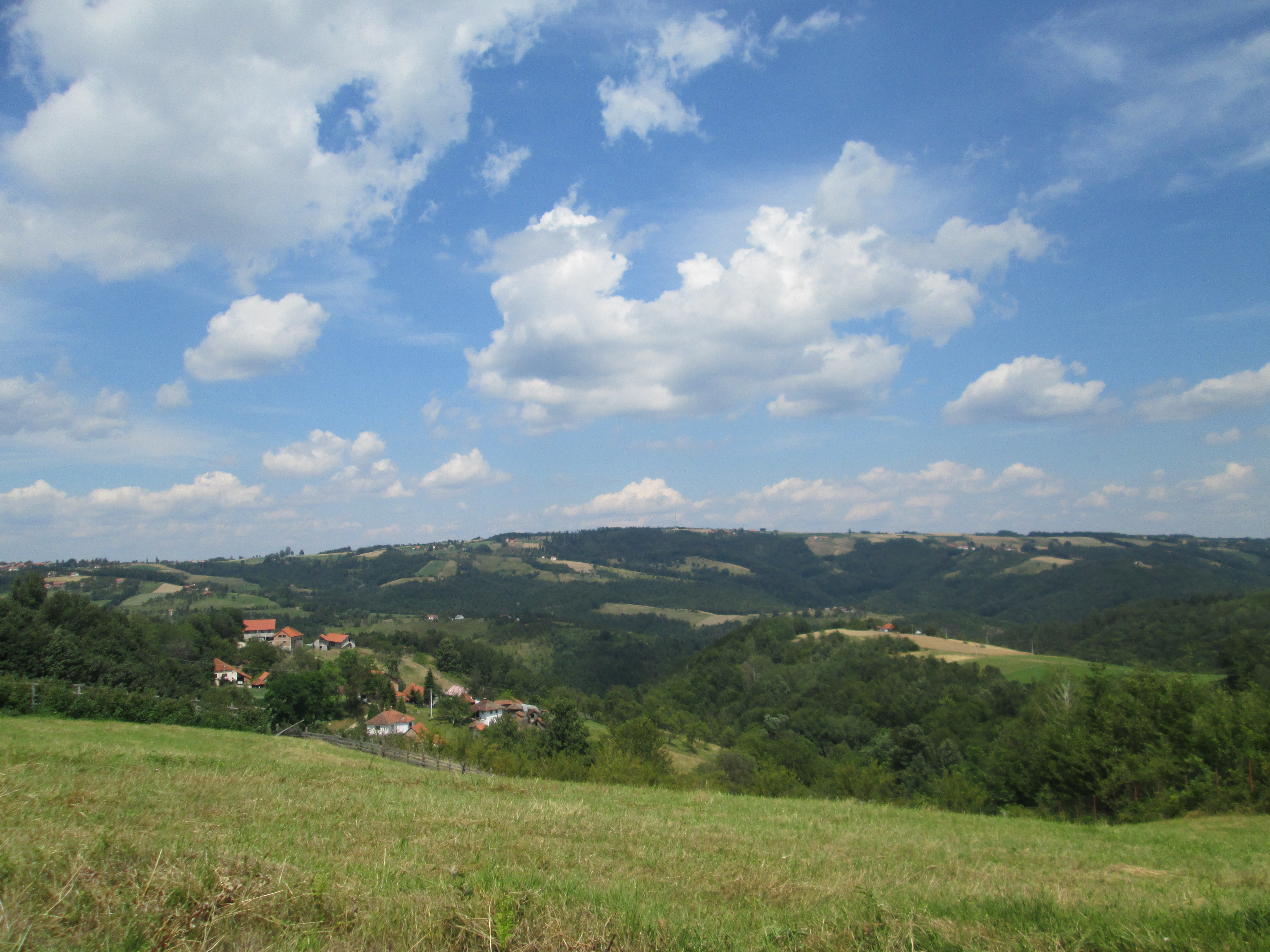 View over the village, Gojna Gora Српски (ћирилица): Поглед на село, Гојна Гора